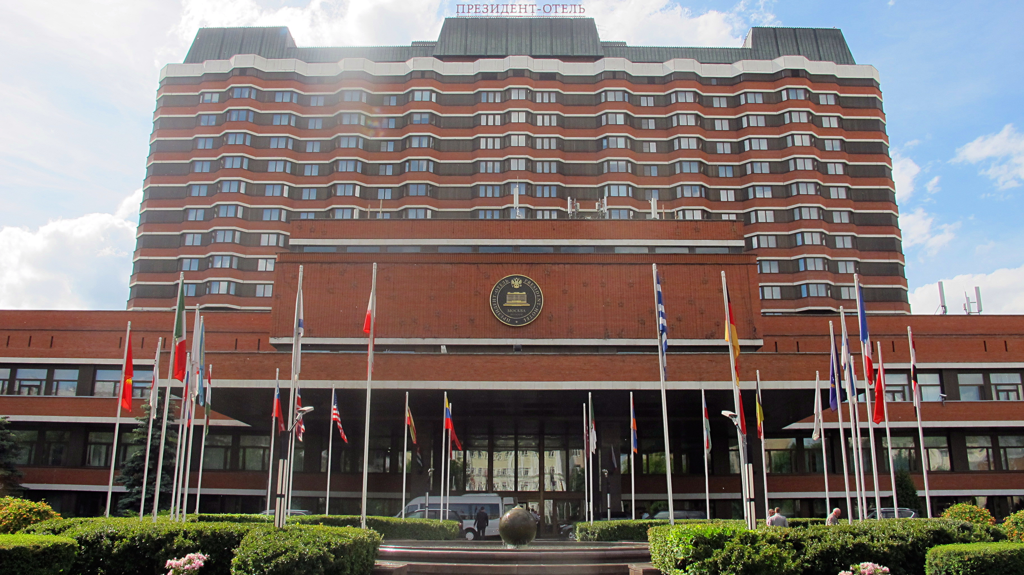 Norilsk Nickel’s Annual General Meeting of Shareholders 2016-06-10